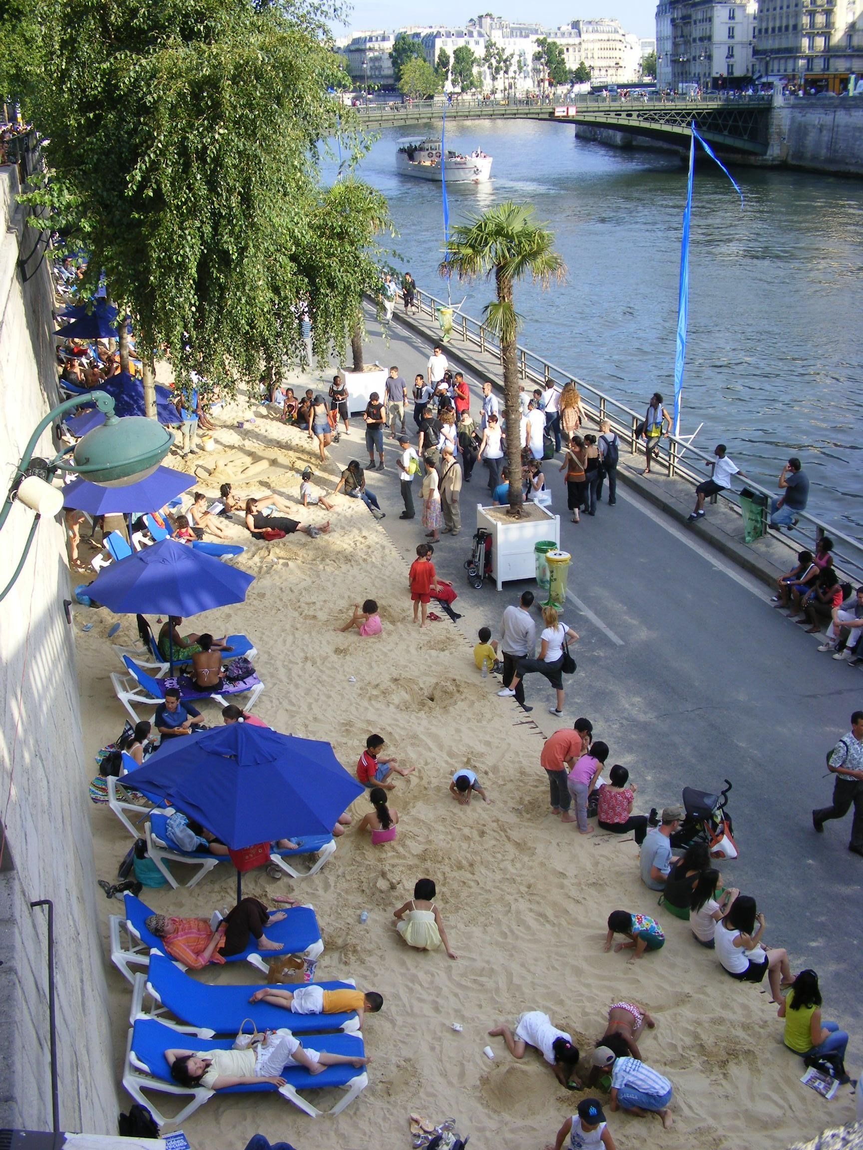 A view of the Paris Plages 2009